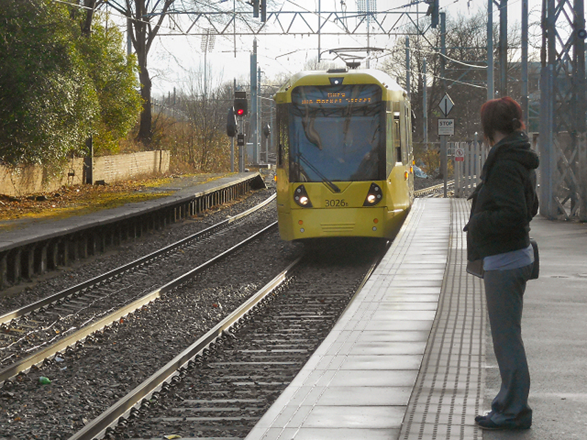 Metrolink Bombardier tram 3026, en-route towards Bury from Altrincham, approaches Trafford Bar Station.